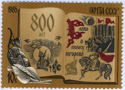 800th anniversary of The Tale of Igor's Campaign, commemorated on 1985 USSR stamp (number 5670 in the Soviet catalogue).